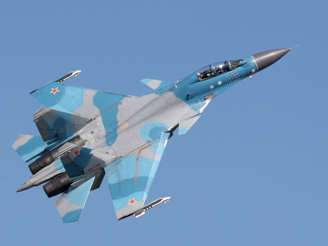 Sukhoi Su-30MK in flight